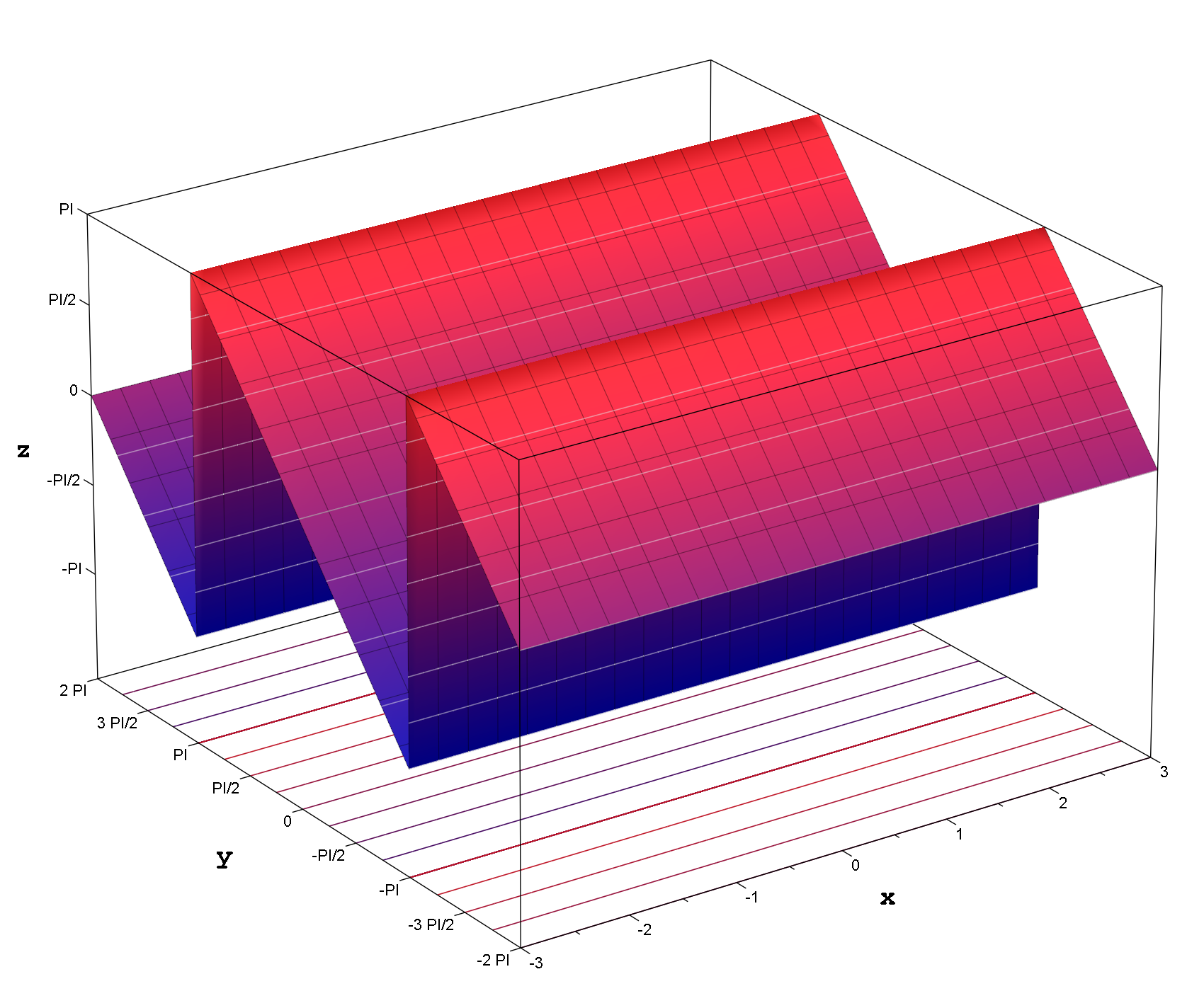 Diagram of the argument of the exponential function in the complex plane. The plot is given by